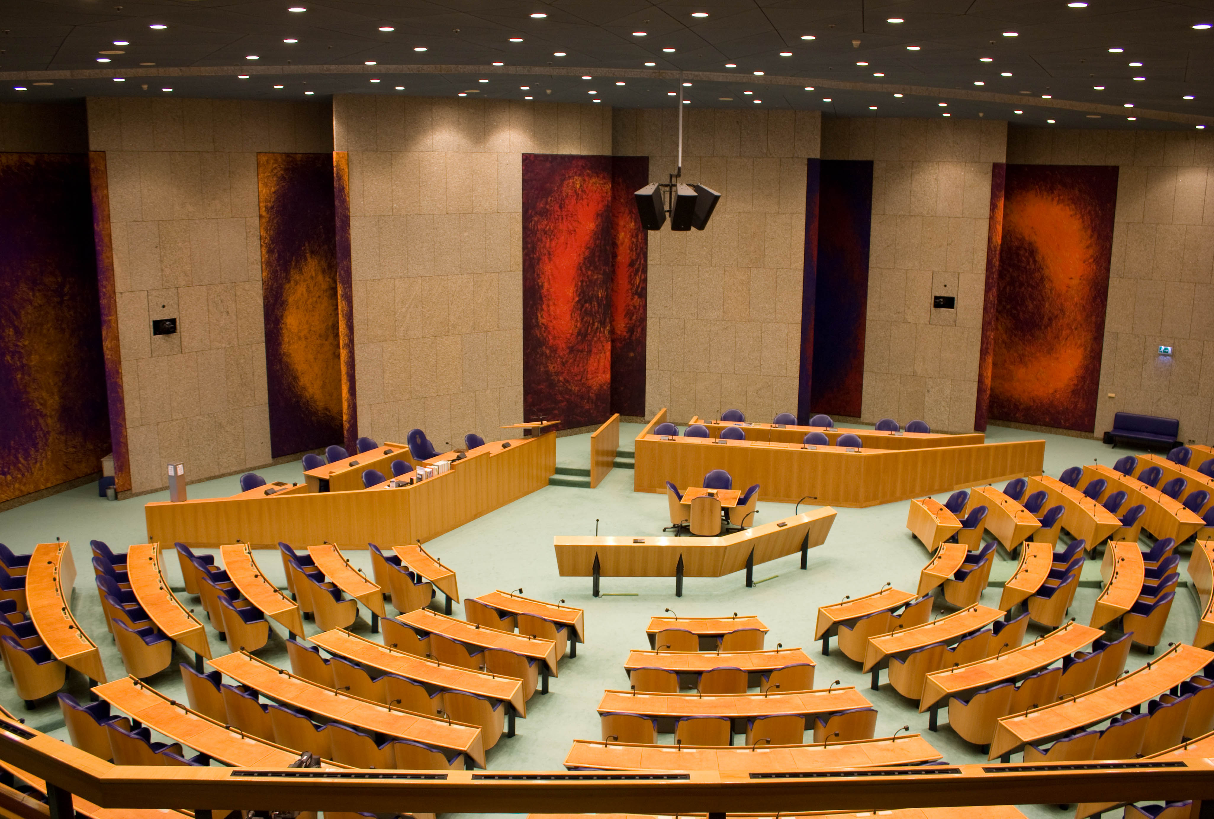 The plenary hall of the Tweede Kamer ("Second Chamber"), the Dutch Parliament .